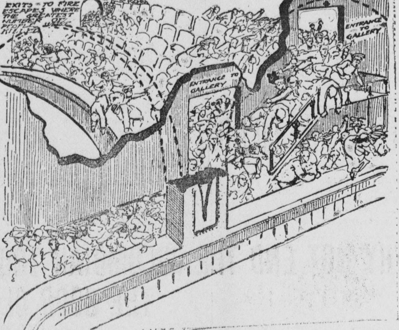 Cutaway drawing of the Iroquois Theatre in Chicago, with the panicked audience trying to flee the onset of the Iroquois Theatre fire.